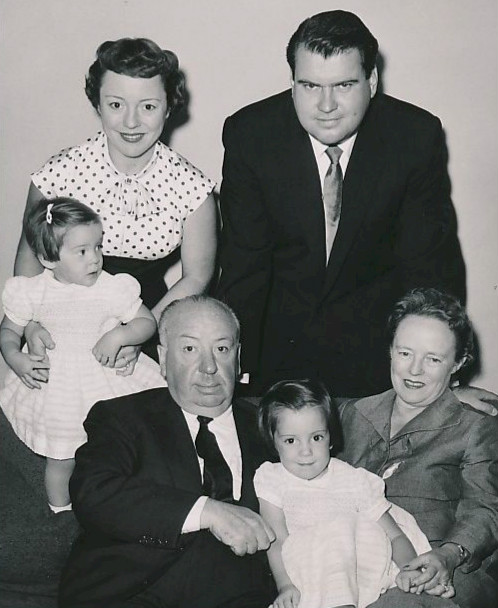 Photo of Alfred Hitchcock and family. Top, from left-Patricia Hitchcock O'Connell (daughter) with Terry O'Connell (granddaughter), Joseph O'Connell (son-in-law). Seated, from left-Hitchcock, Mary Alma O'Connell (granddaughter), and wife Alma Reville Hitchcock (wife).